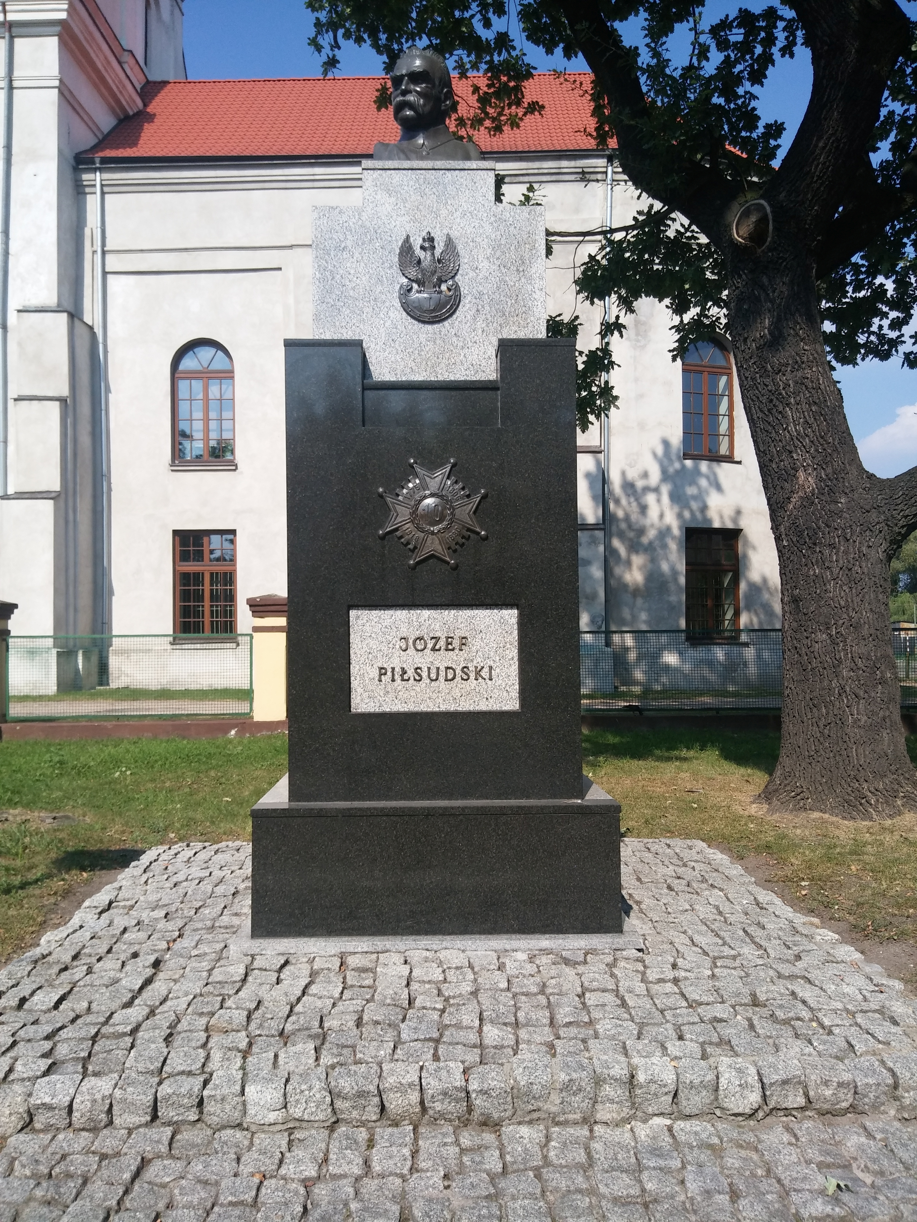 Józef Piłsudski monument in Łowicz